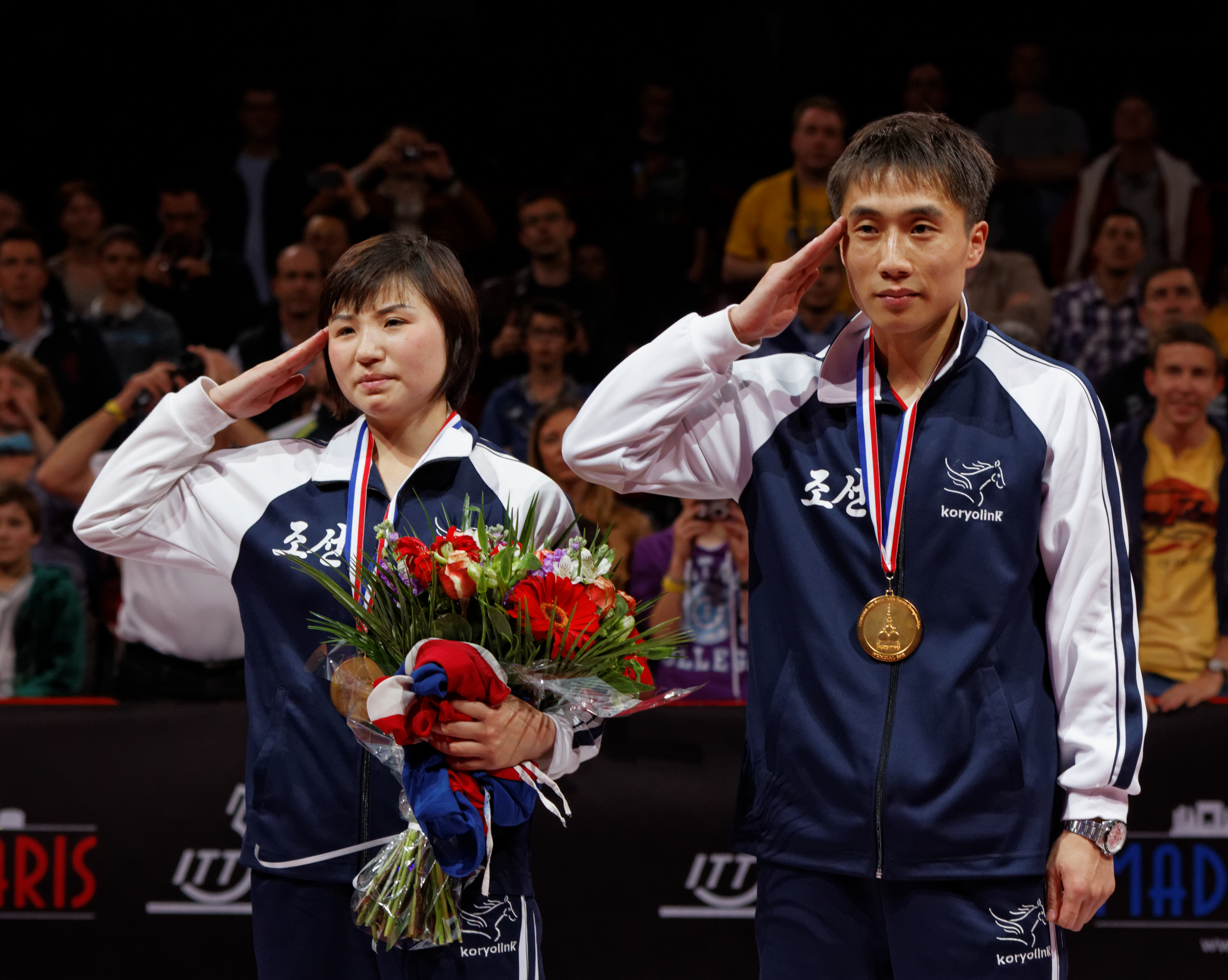 2013 World Table Tennis Championships, Paris. Mixed Doubles Final. Lee Sang-Su and Park Young-Sook vs Kim Hyok-Bong and Kim Jong.